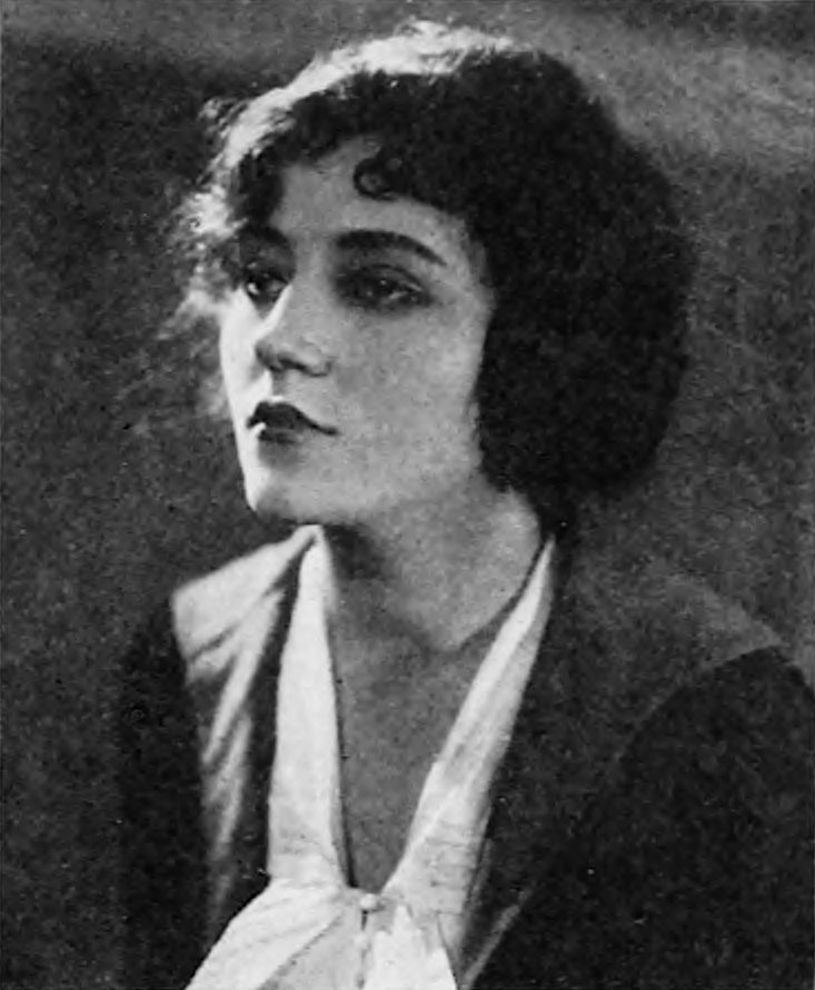 Still from the American mystery film Duds (1920) with Florence Deshon, on page 85 of the April 3, 1920 Exhibitors Herald.